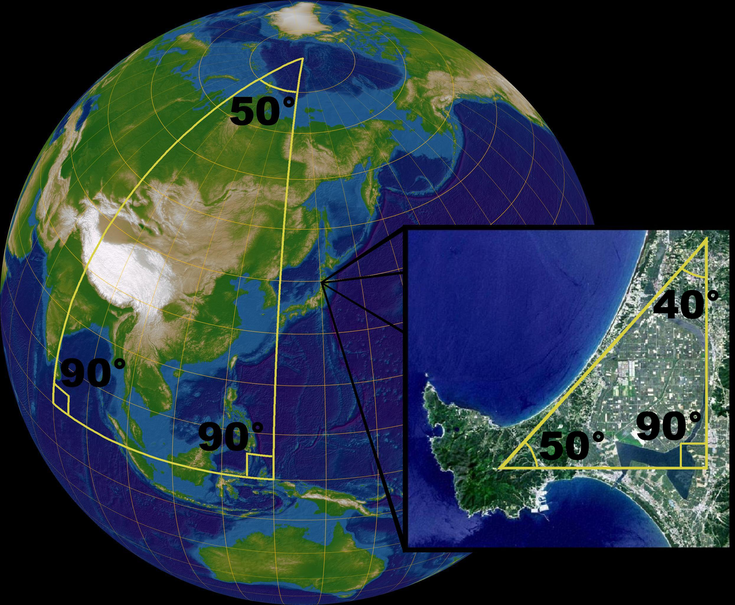 Illustration of spherical geometry where the angles of a triangle do not sum to 180°. The globe is an orthographic projection centered on Japan at 135°30′ E, 36° N. The map is of Oga Peninsula, Akita, Japan at 139°52′ E, 39°56′ N. Landsat image with high-resolution data from Space Shuttle. This file is intended to replace File:Triangle on globe.jpg, a low-quality file with questionable copyright.